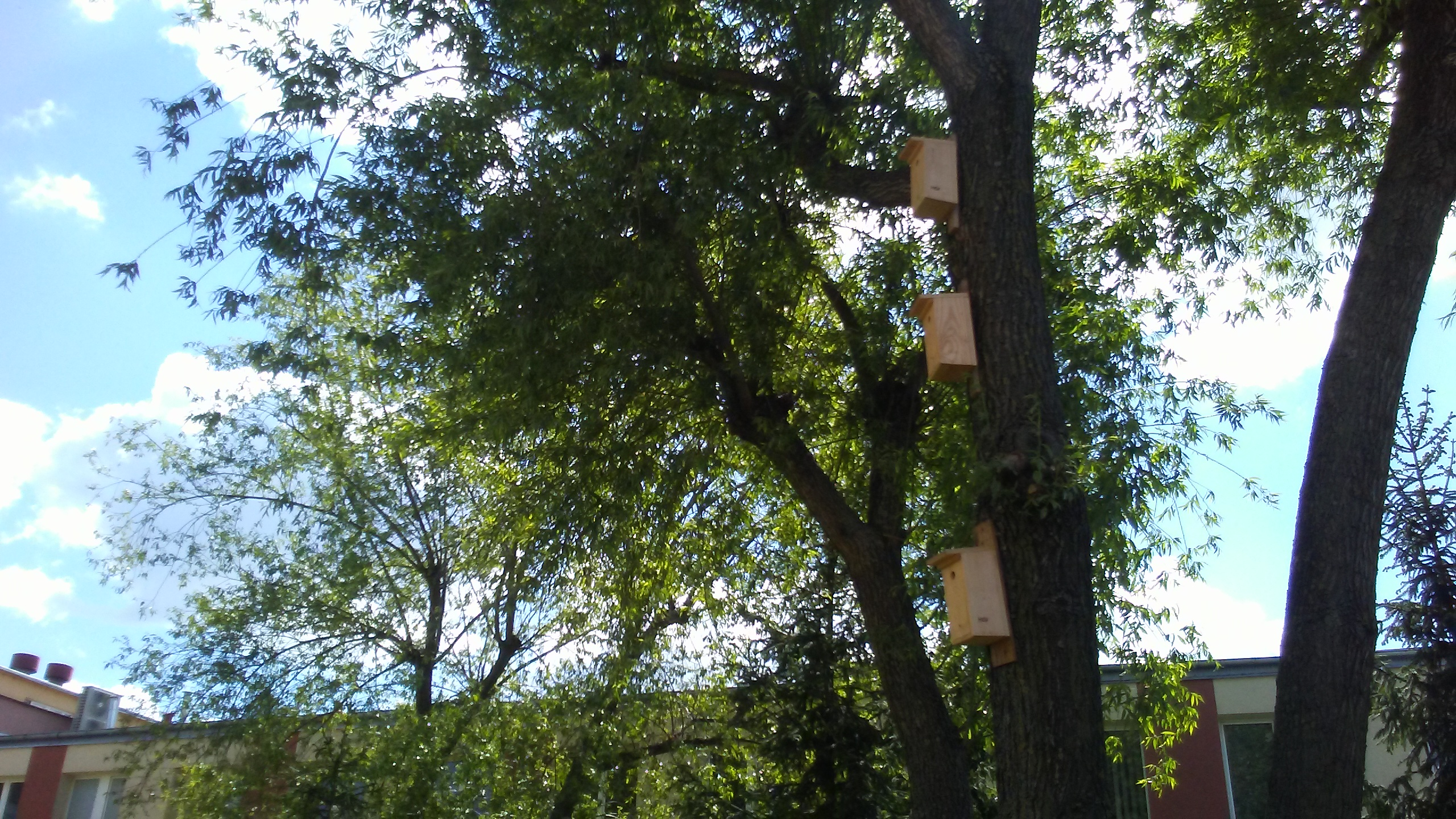 Birdhouses, Tomaszów Mazowiecki, Hubala I residential area